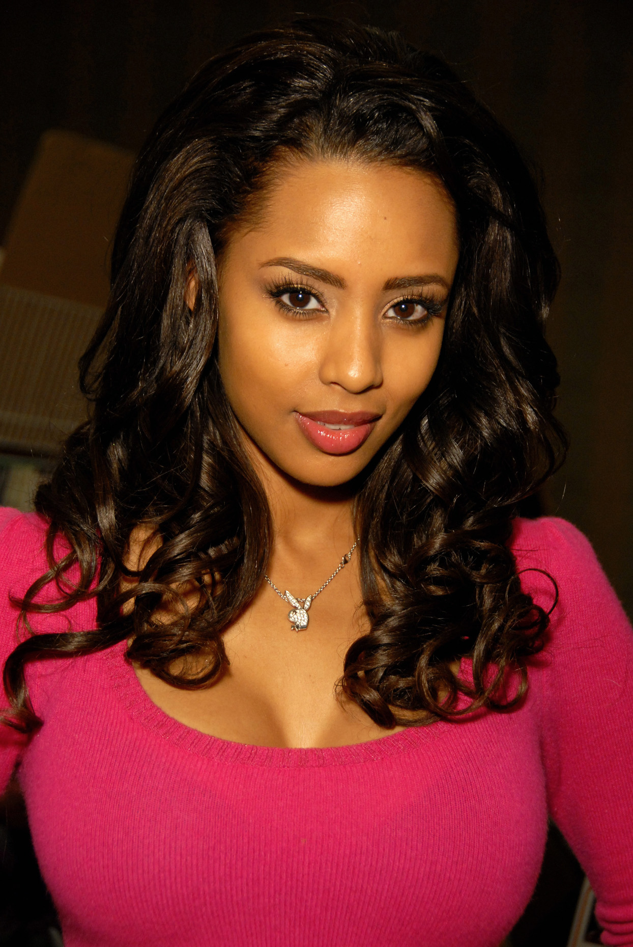 Ida Ljungqvist attending Glamourcon #50, Long Beach, CA on November 13, 2010 - Photo by Glenn Francis of